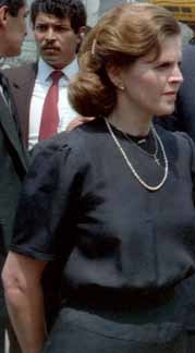 Mexican first lady Paloma Cordero observing the damage done by the 1985 Mexico City earthquake.